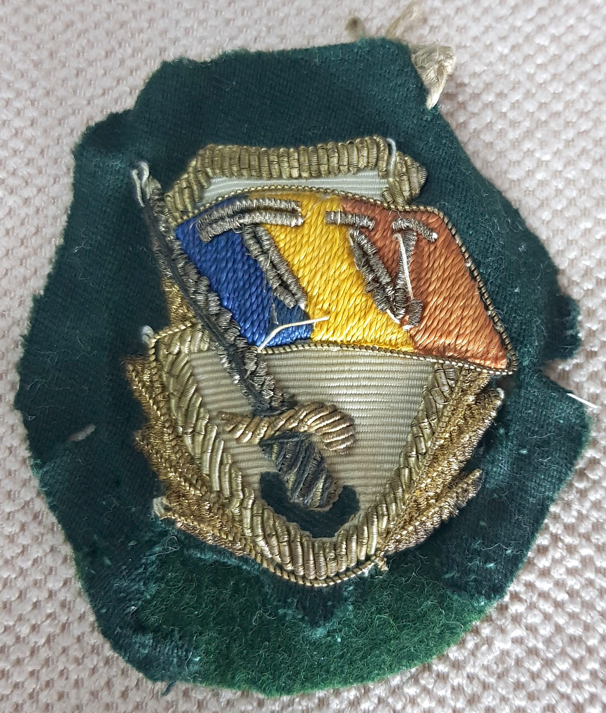 Divisional badge of the Romanian volunteers of the Divizia Tudor Vladimirescu which operated under Soviet command 1943-5.